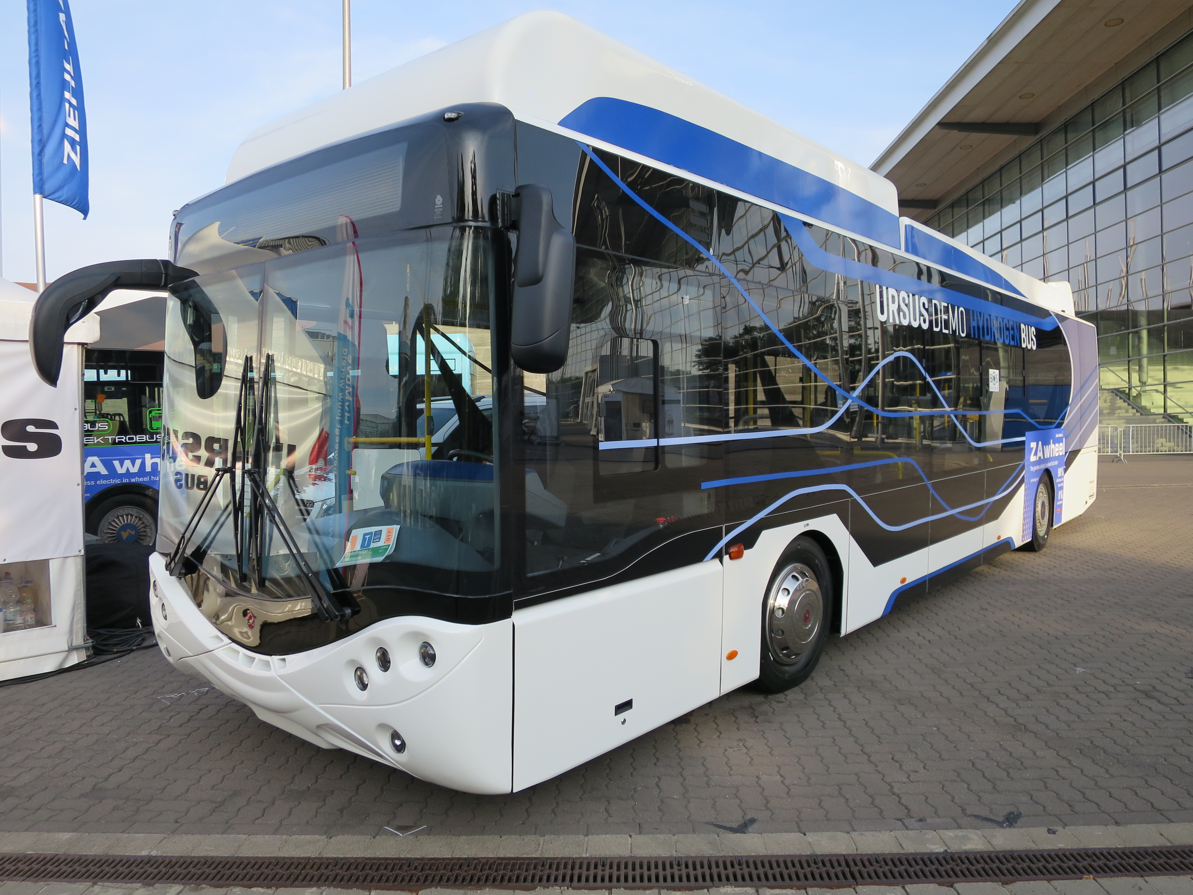 The making of this document was supported by Wikimedia Polska Association, within Wikigrant no. WG 2016-35. URSUS Hydrogen Bus